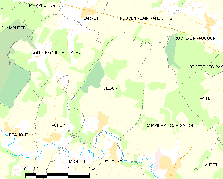 Map of French municipality